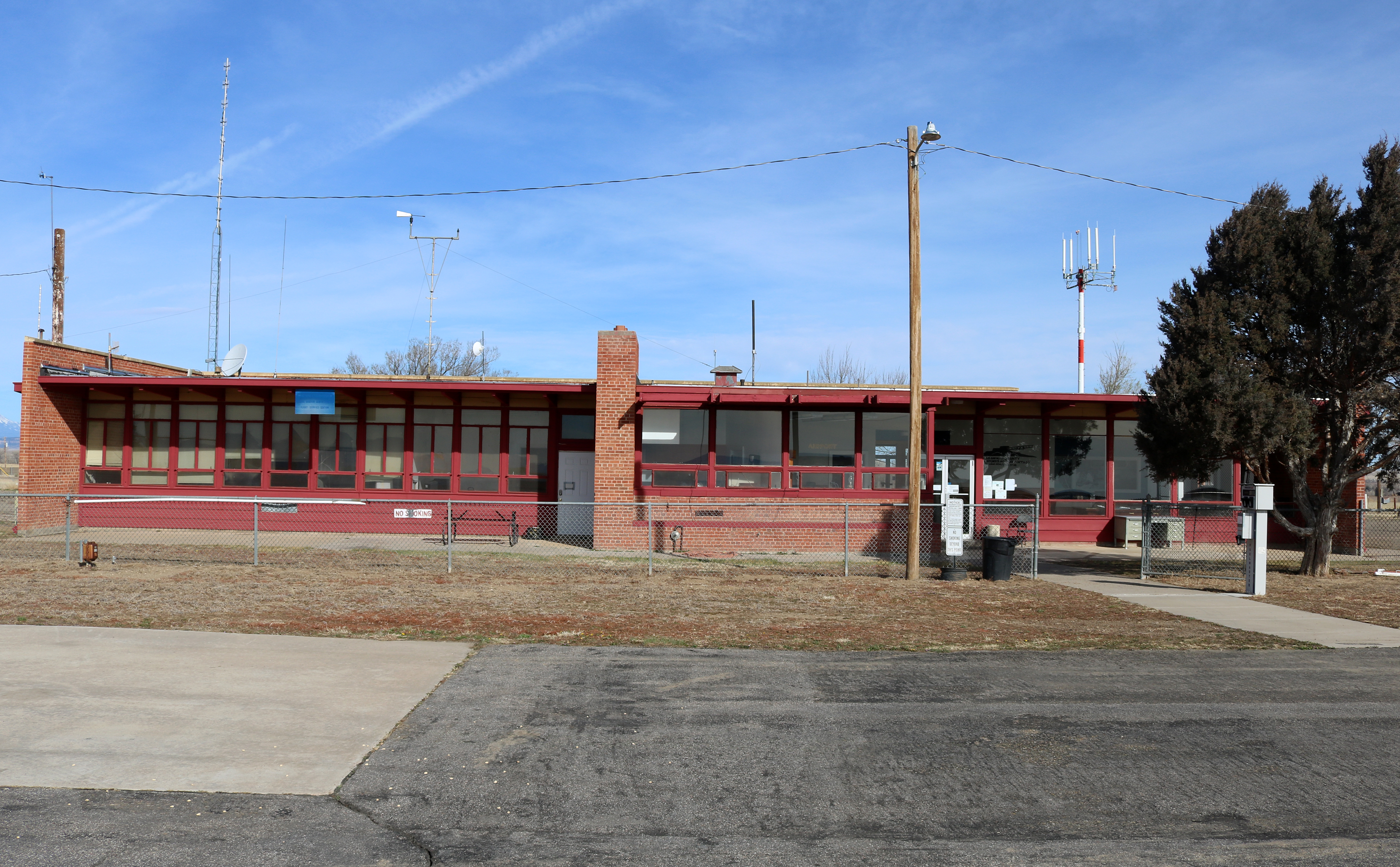 The Perry Stokes Airport terminal building, located at 44814 County Road 38, northeast of Trinidad, Colorado.